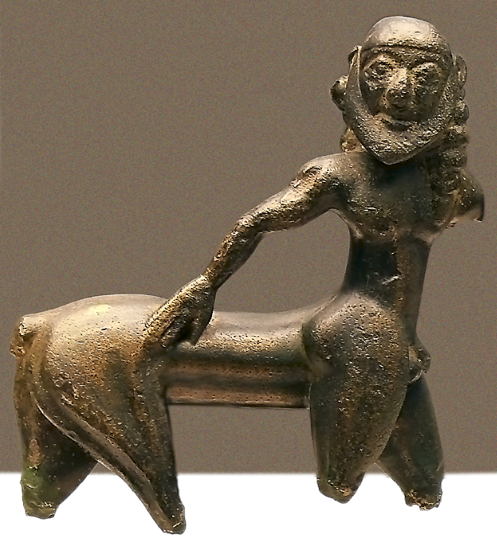 Little figurine in bronze that comes from Campo de Caravaca (Murcia, Spain), probably made in the Ancient Greece (Peloponnese), 6th century BC.